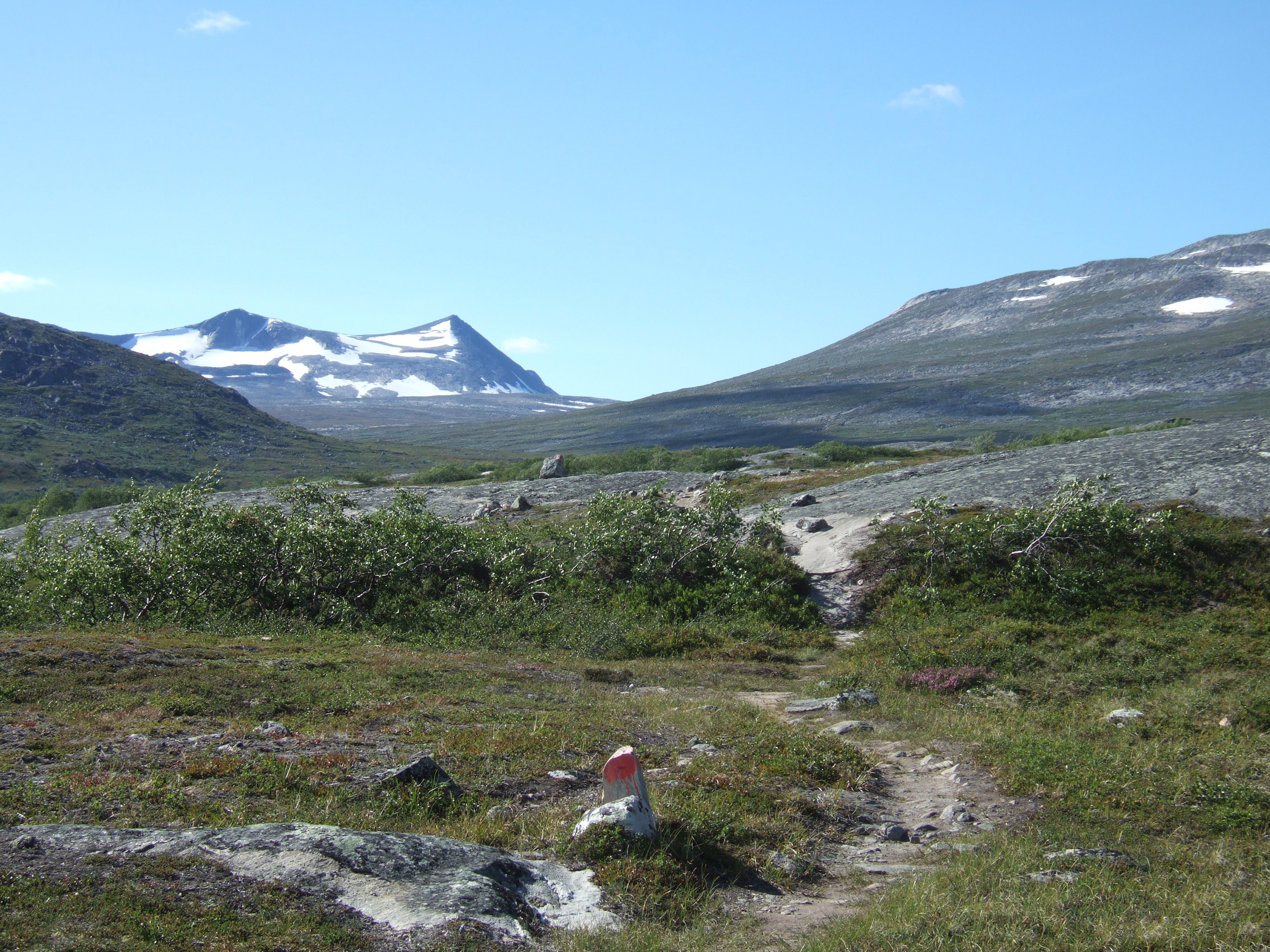 Mont Lønstint in Saltfjellet national park